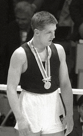 Emil Schulz at the Tokyo Olympics. Tokyo, October 1964